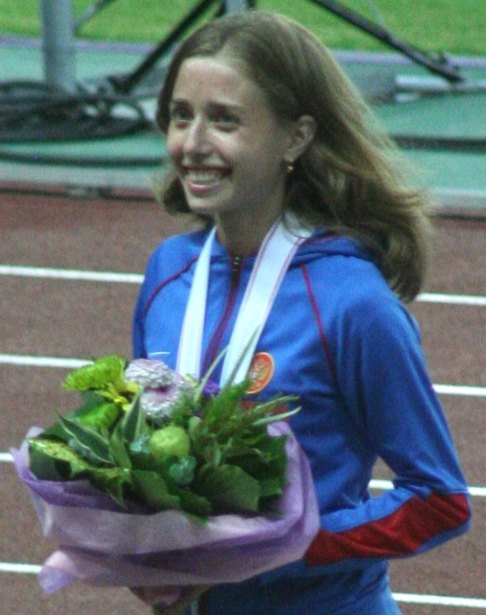 Russian athlete Olga Kaniskina